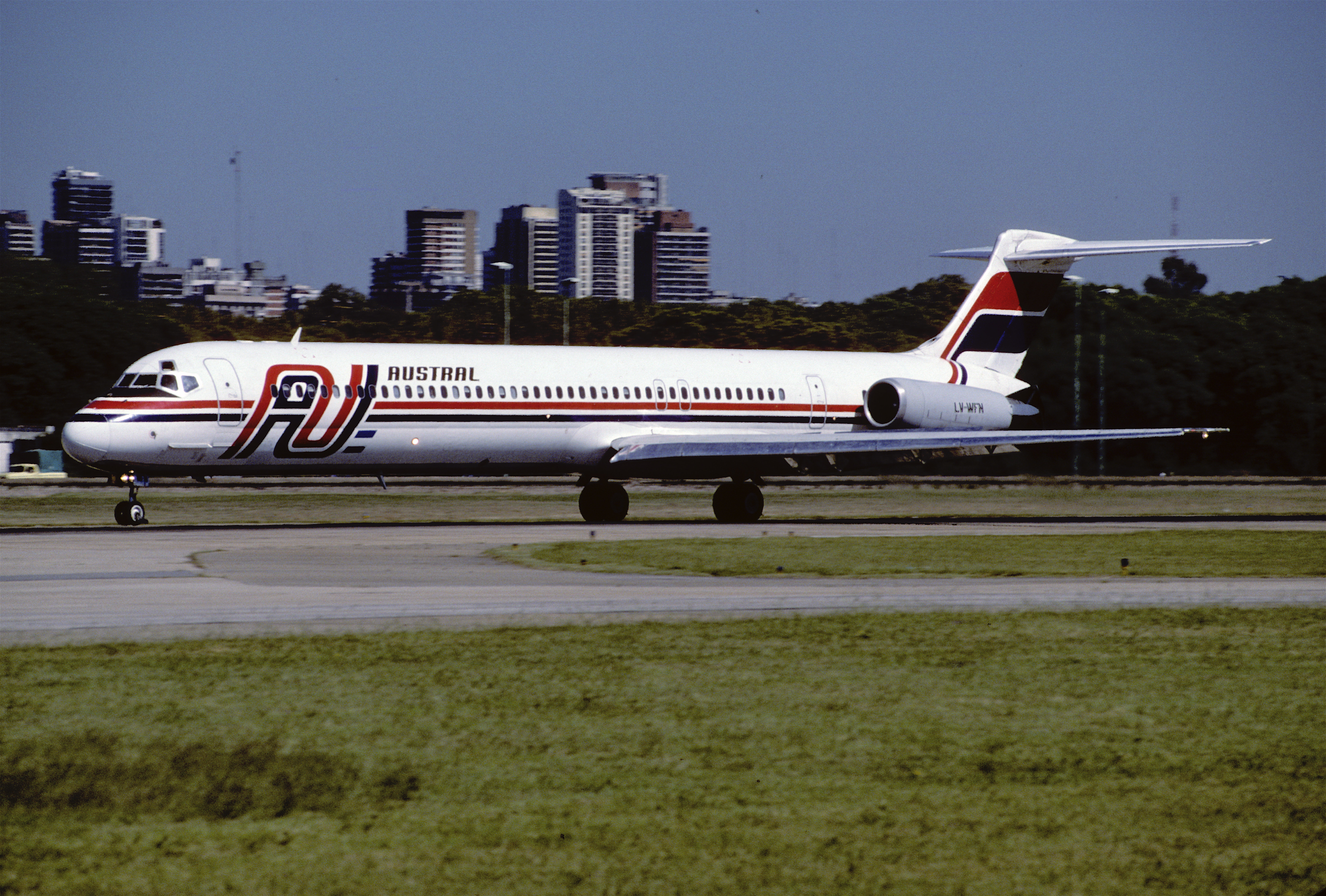 Austral MD-81; LV-WFN@AEP, March 1995/ BYO